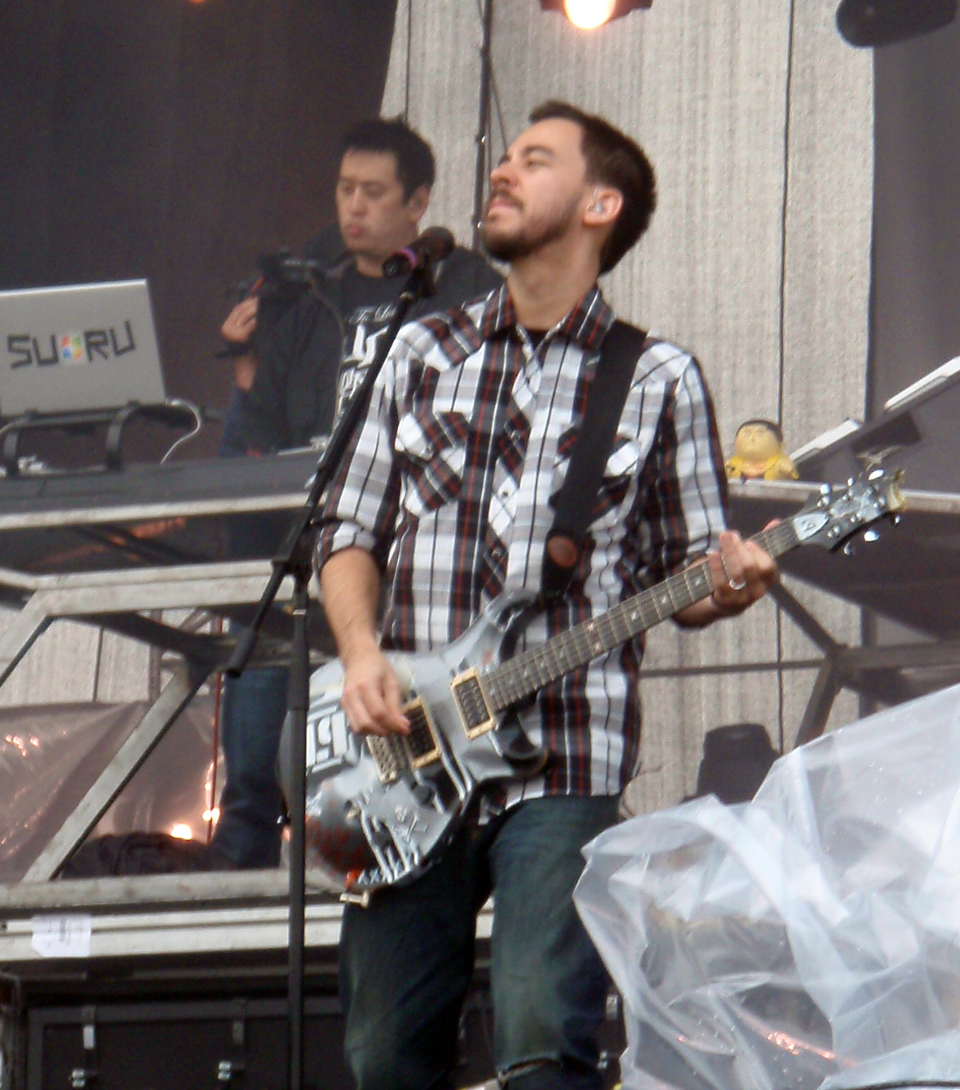 Mr. Hahn & Mike Shinoda from Linkin Park performing at Sonisphere Festival in Kirjurinluoto, Pori, Finland.